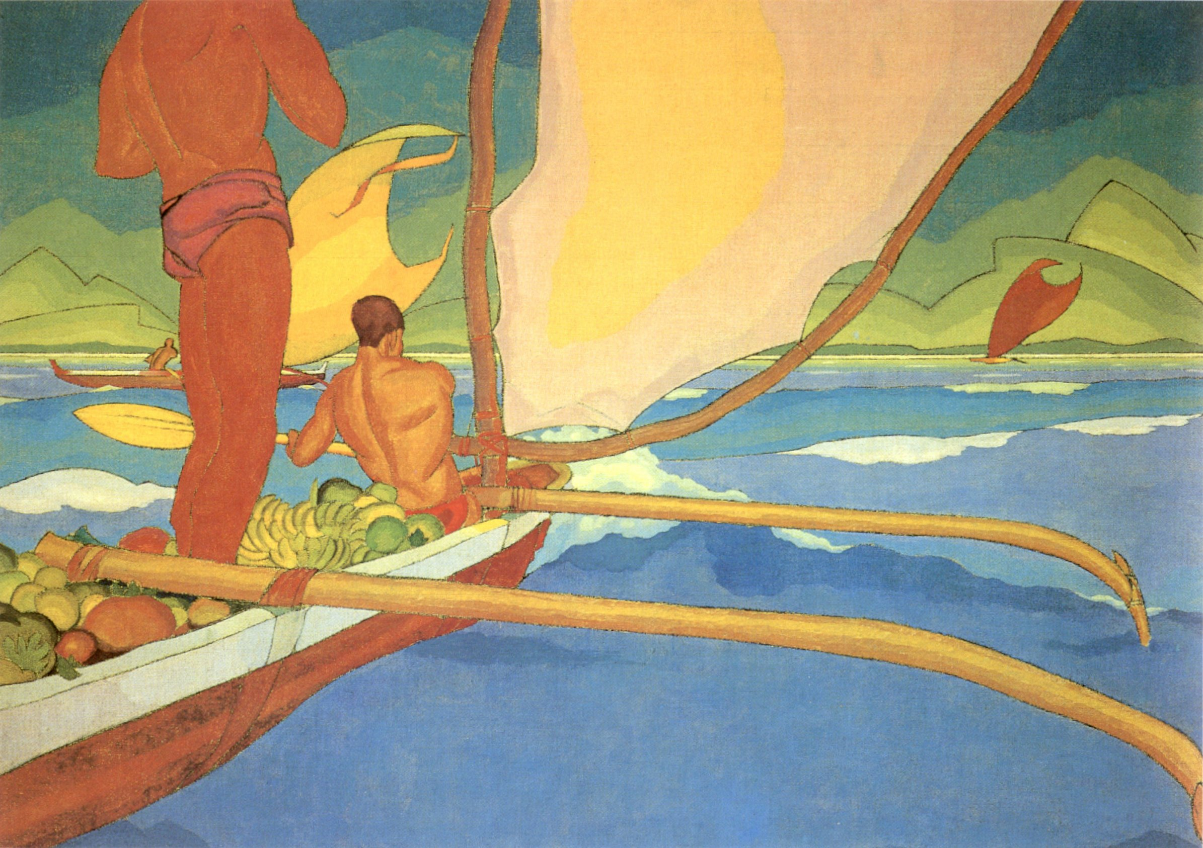 Men in an Outrigger Canoe Headed for Shore, oil on canvas, 48 x 68 inches